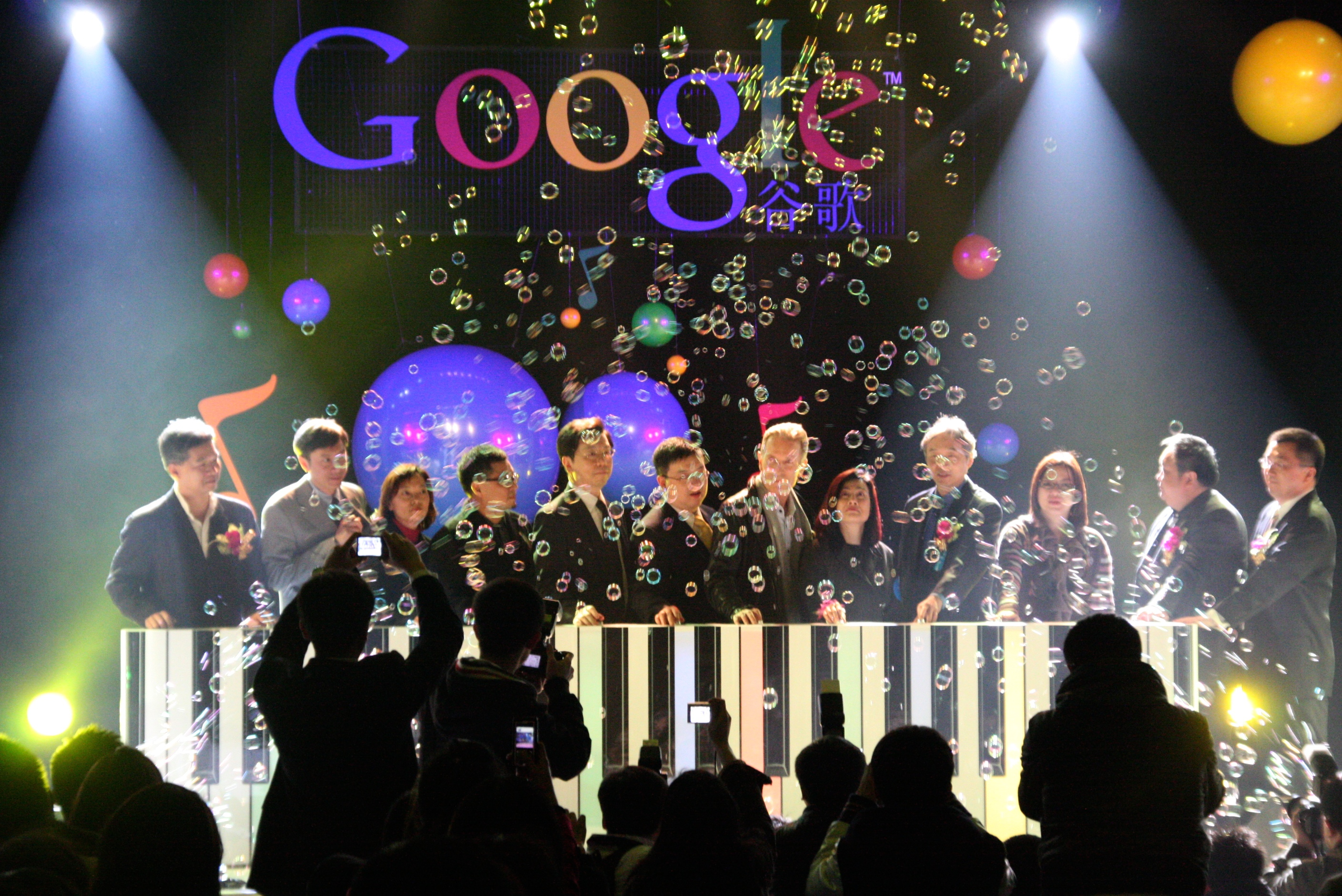 Google music search Product Launch(March 30th of 2009,Beijing,china.)